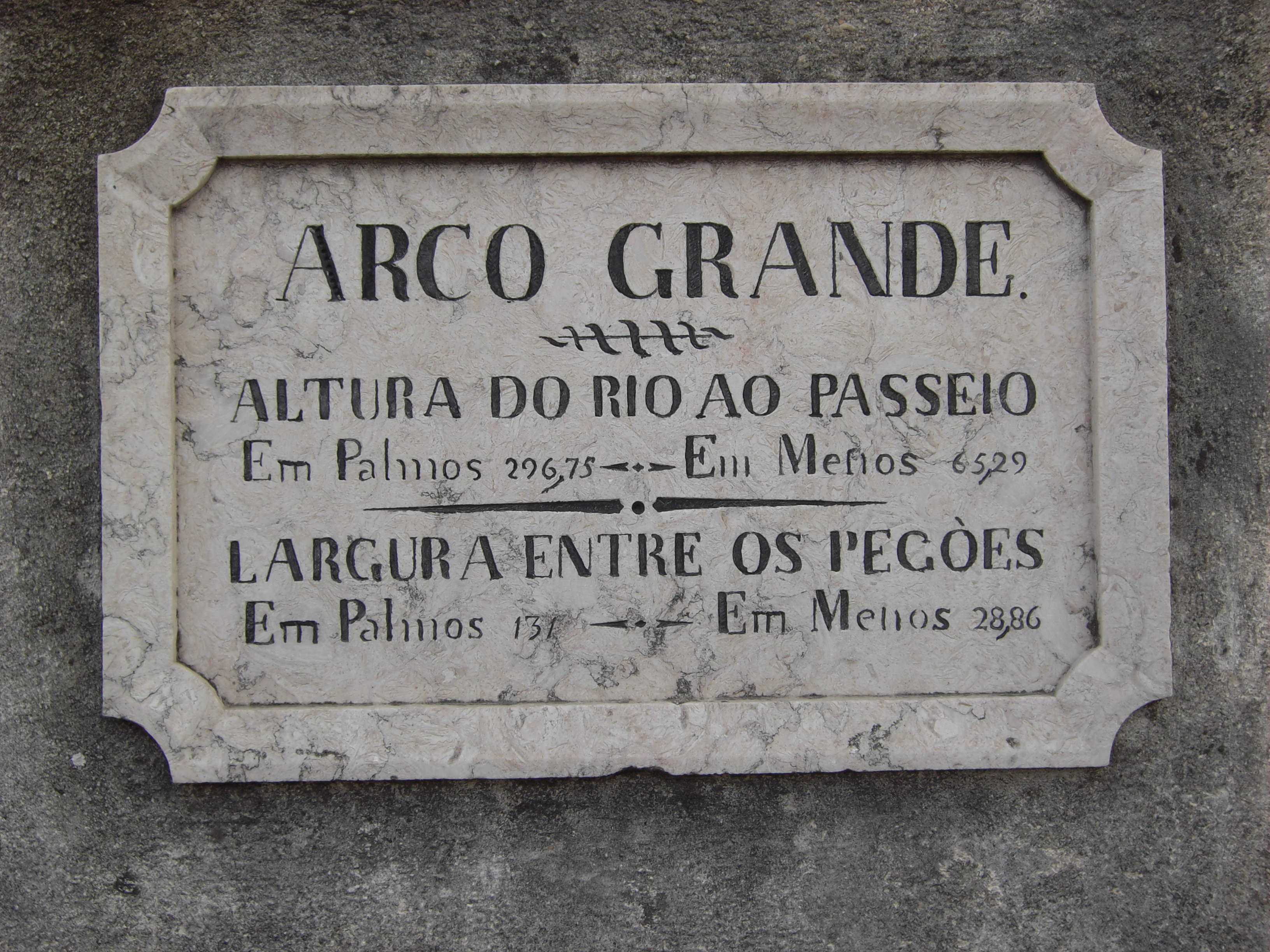 Lisboa - Aqueduto das Águas Livres. Original photograph taken by Nol Aders on 17th October 2005, 13:36